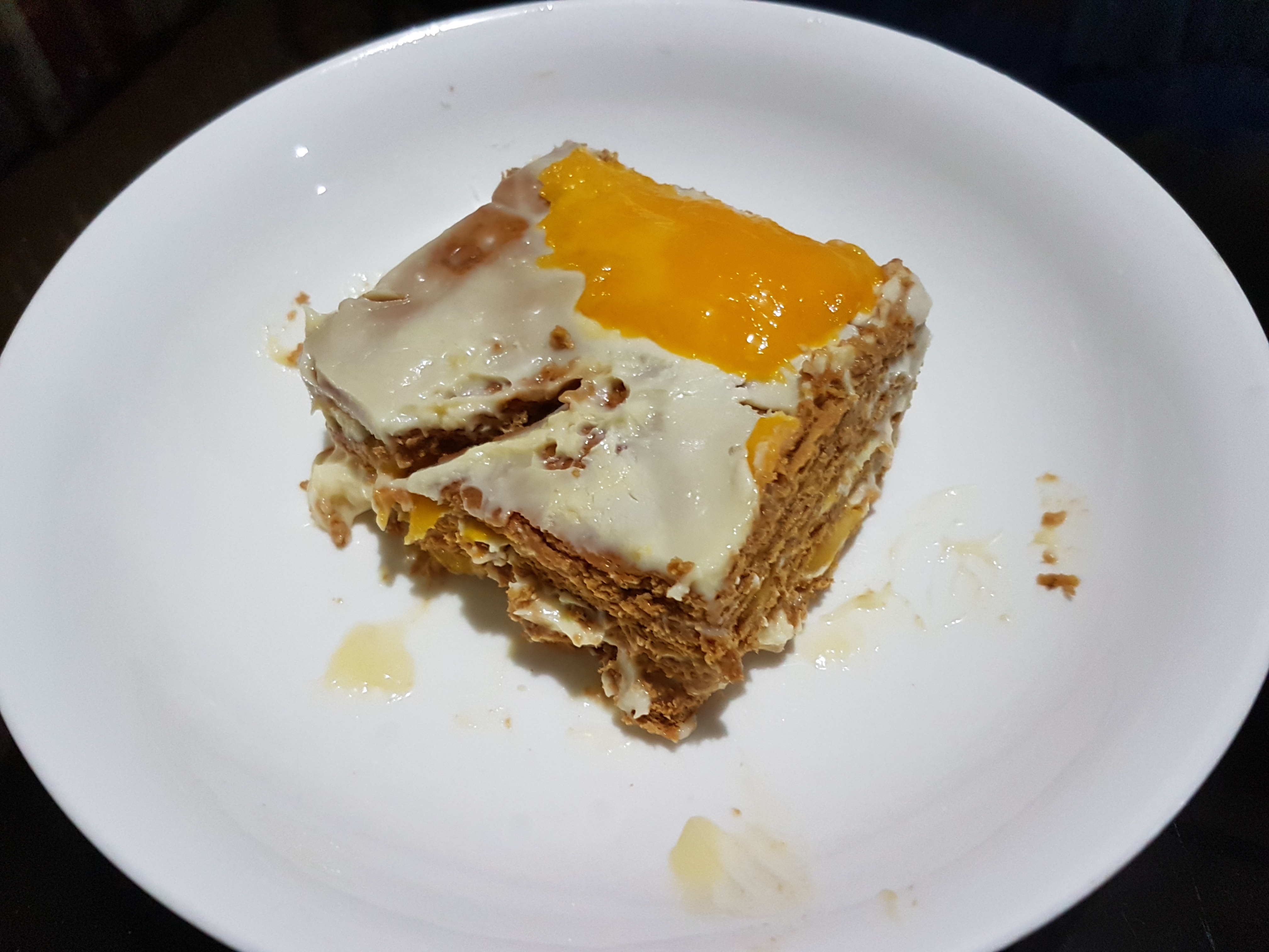 Mango float, an Filipino icebox cake version of Crema de Fruta. Also known as "mango royale". Made with cream, graham crackers, condensed milk, and ripe mangoes.